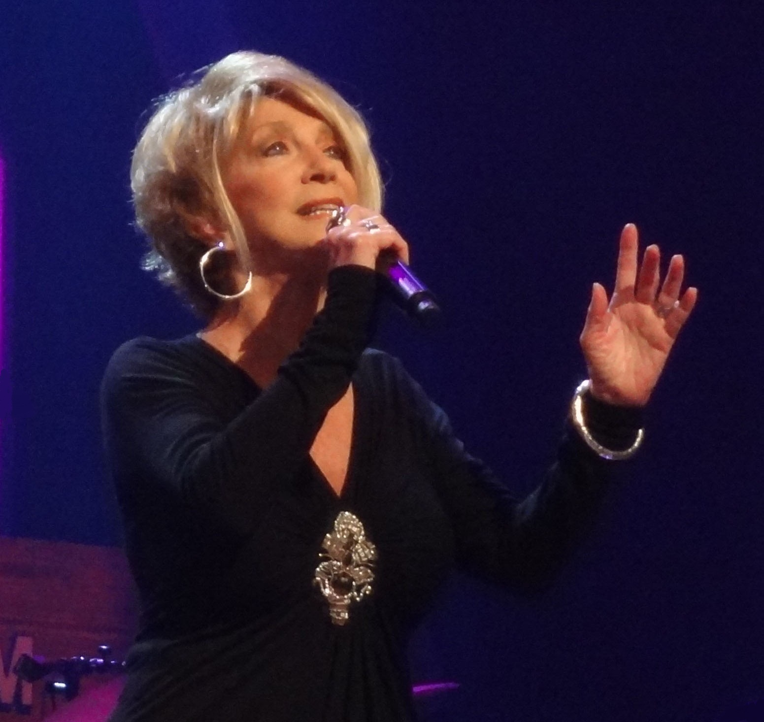 Jeannie Seely in performance at the Grand Ole Opry